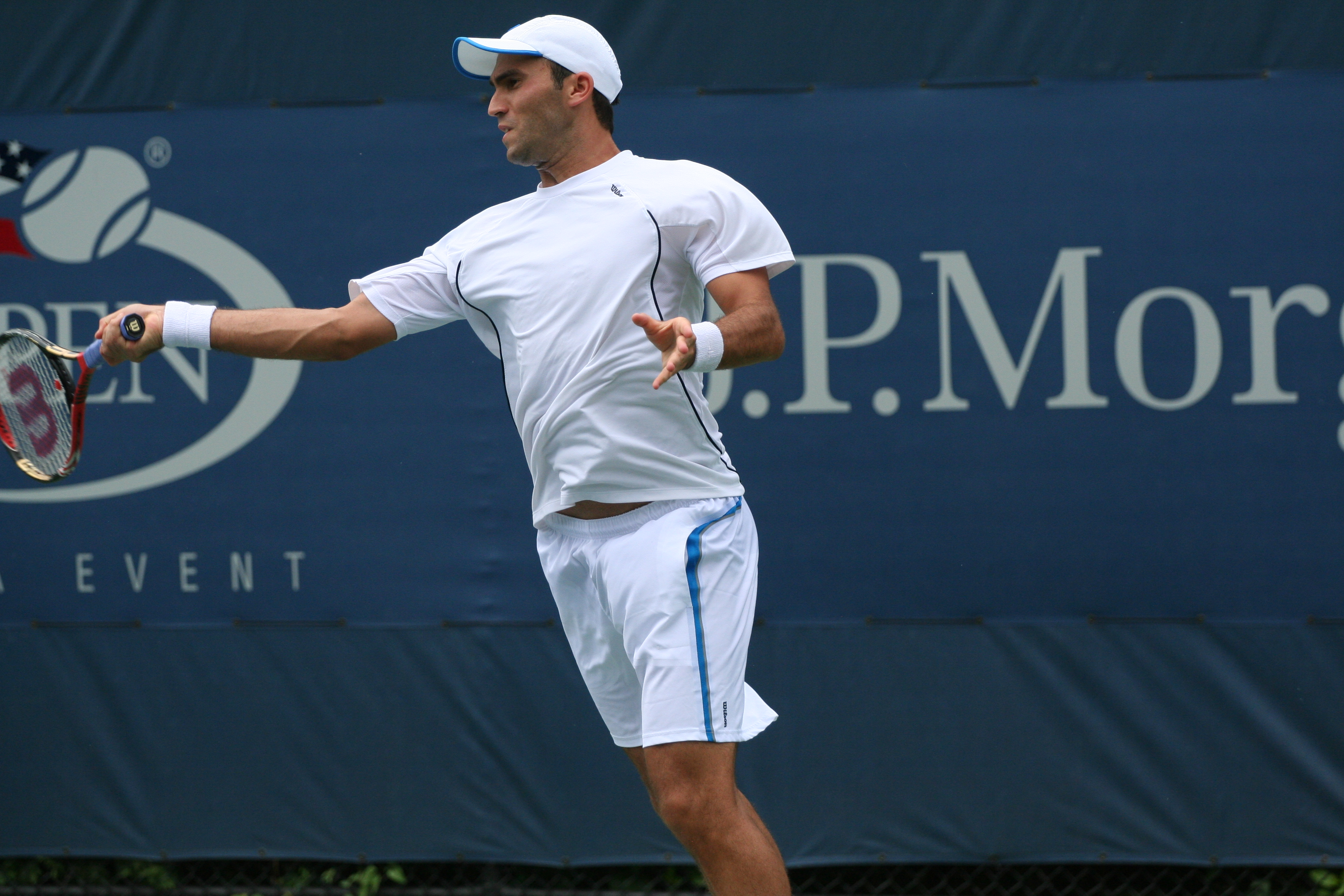 Romanian tennis player Horia Tecău at the 2010 US Open.